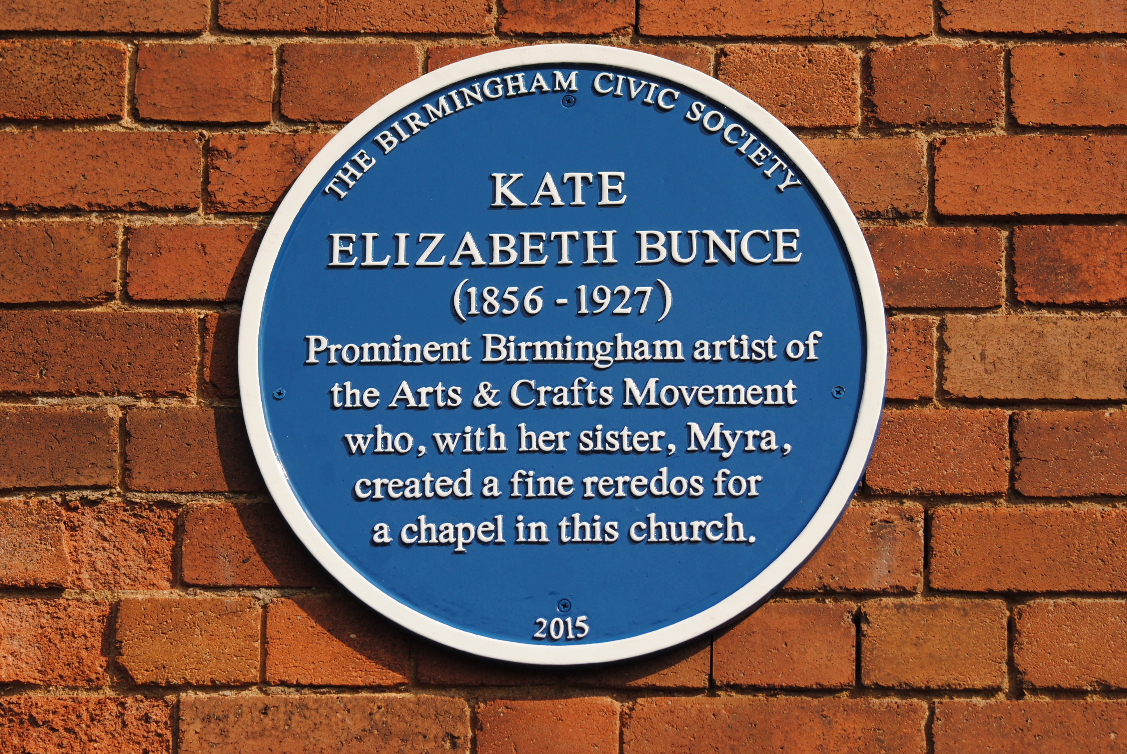 Unveiling of a Birmingham Civic Society blue plaque, commemorating Kate Bunce, at Church of St Alban and St Patrick, Highgate, Birmingham, England, on 10 September 2015.